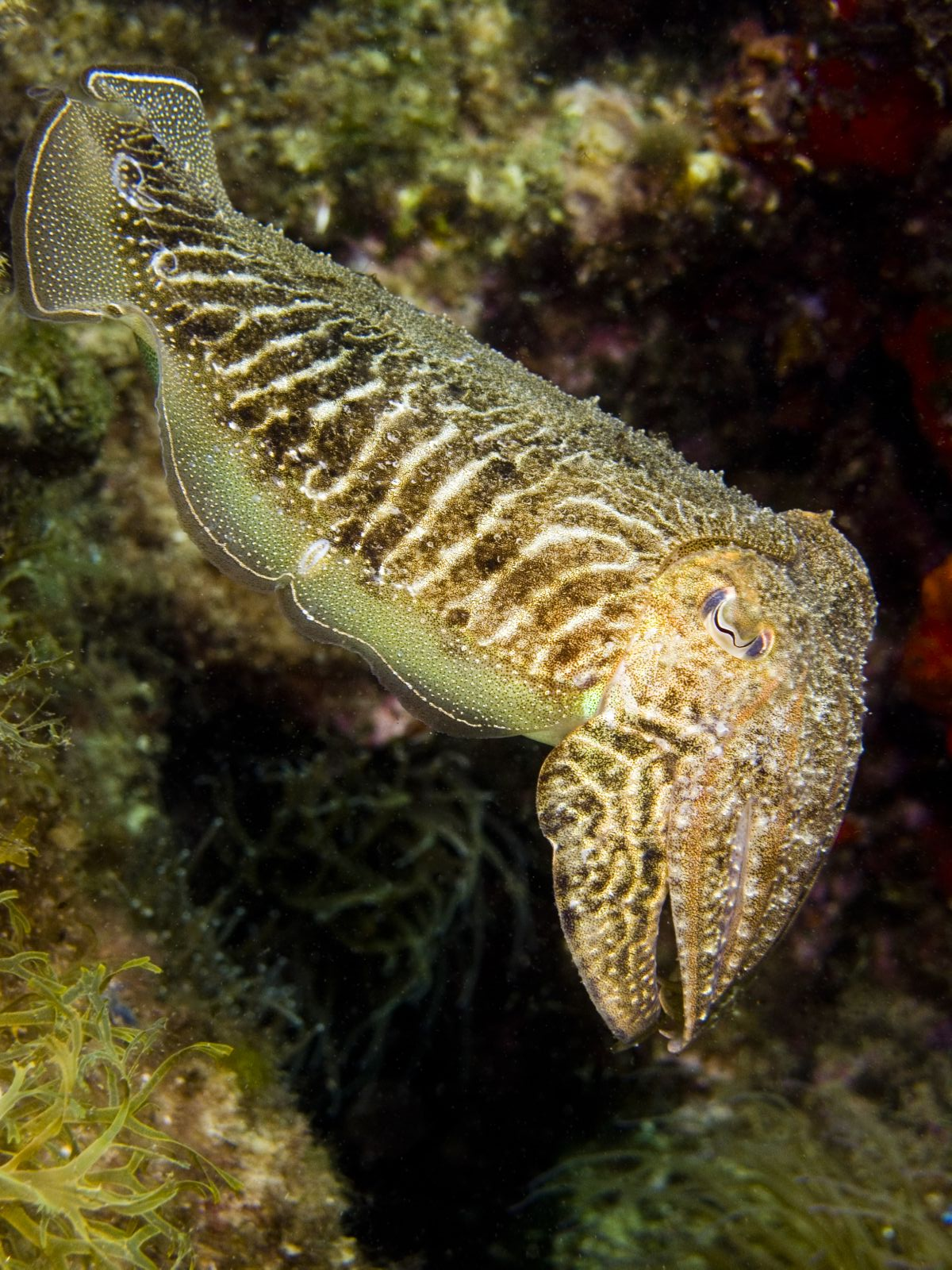 Bora Zont, Taken at Saros/Turkey by me